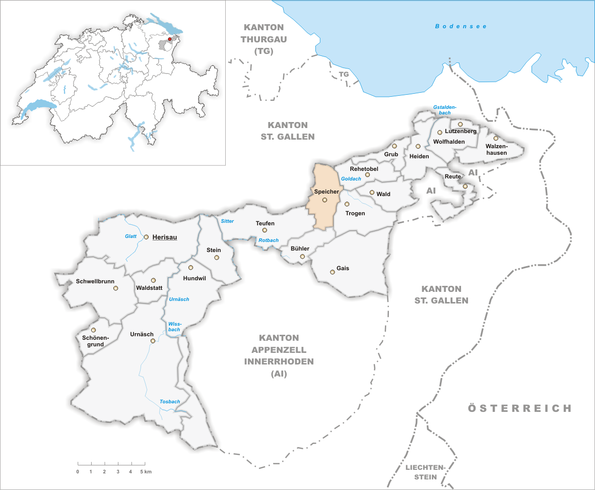 Municipality of Speicher